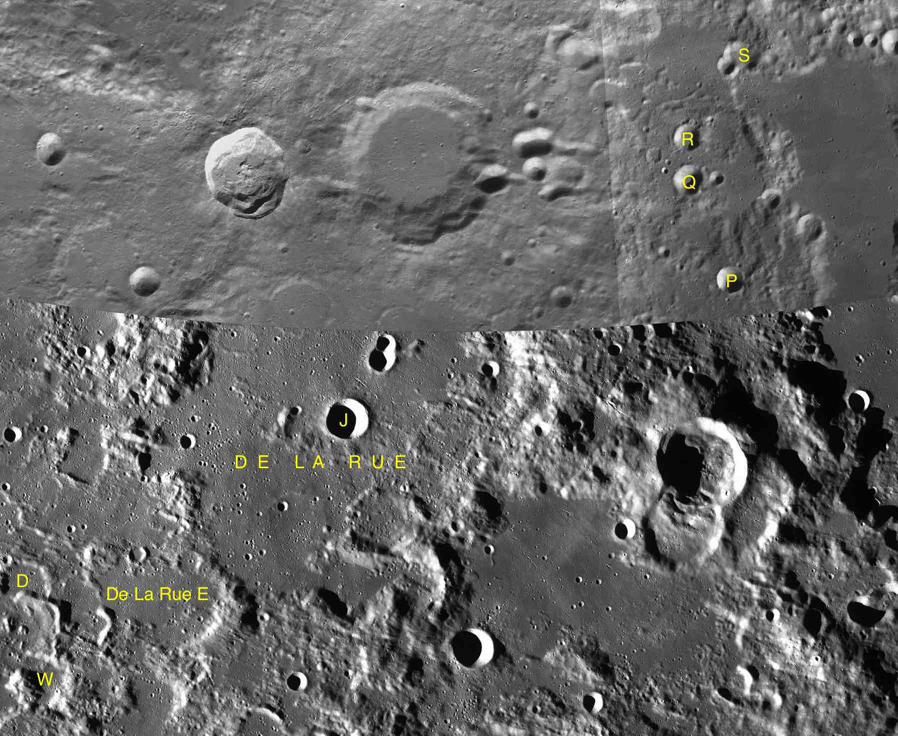 Part of the chart LAC-14 used for the presentation